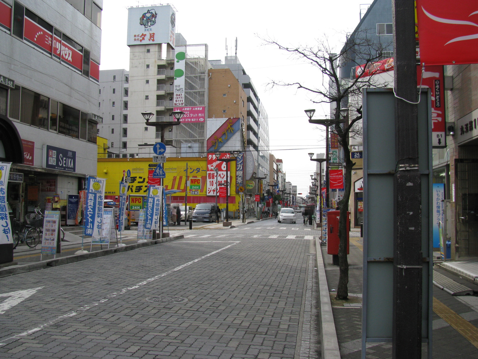 Motoyawata station on JR Sobu Main Line